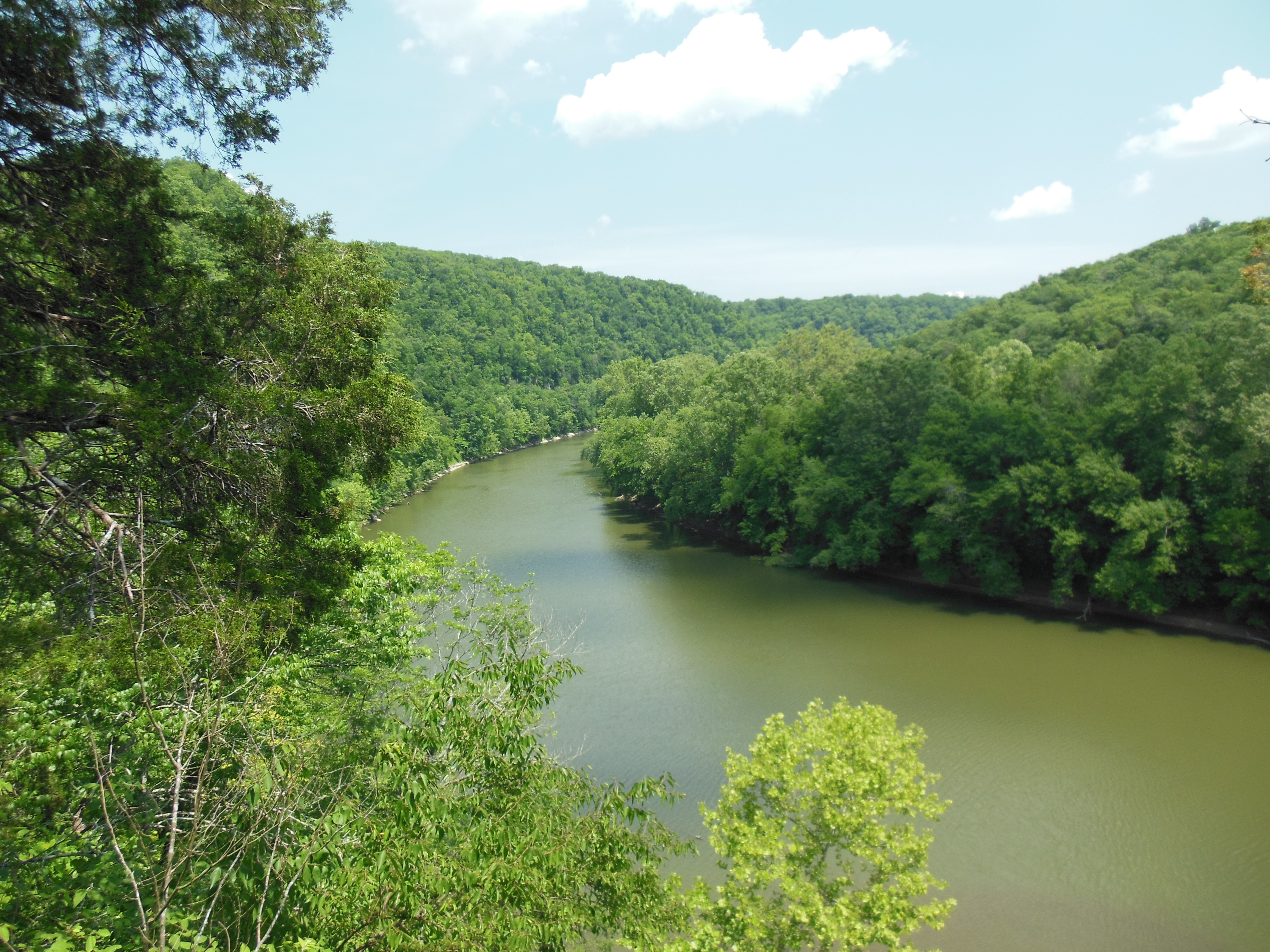 View from Kentucky River overlook in Raven Run Nature Sanctuary